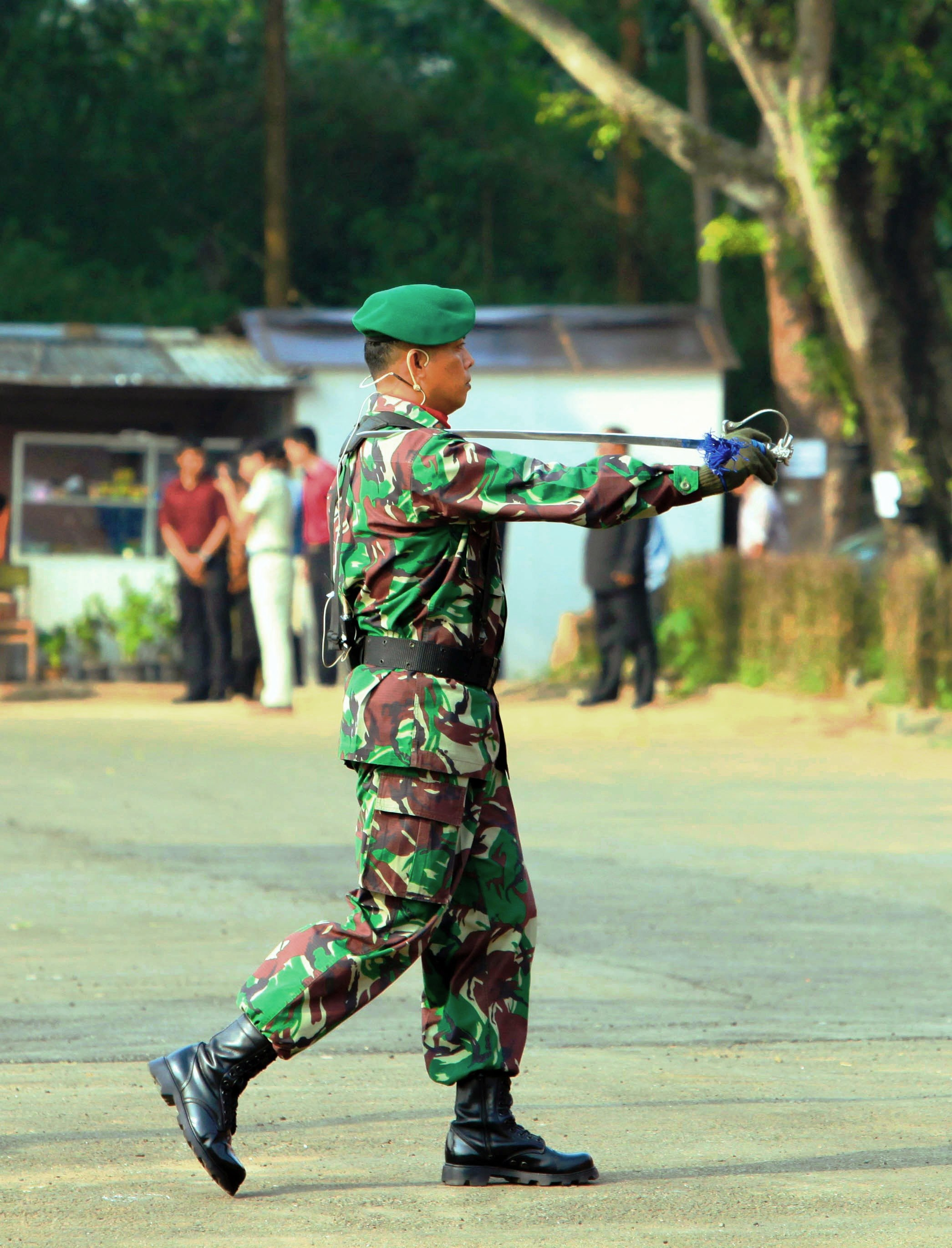 An Indonesian Army officer